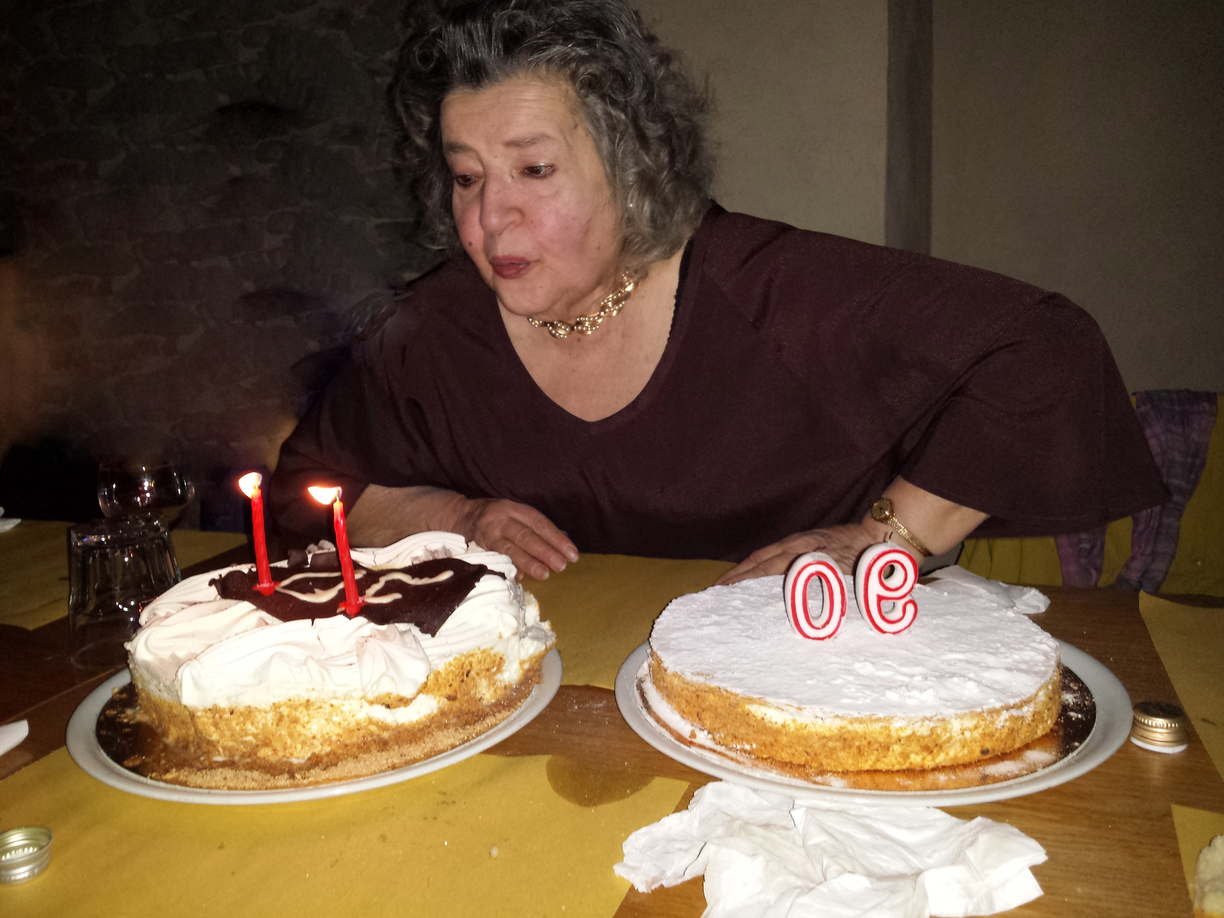 Gianna Sammarco (Actress)